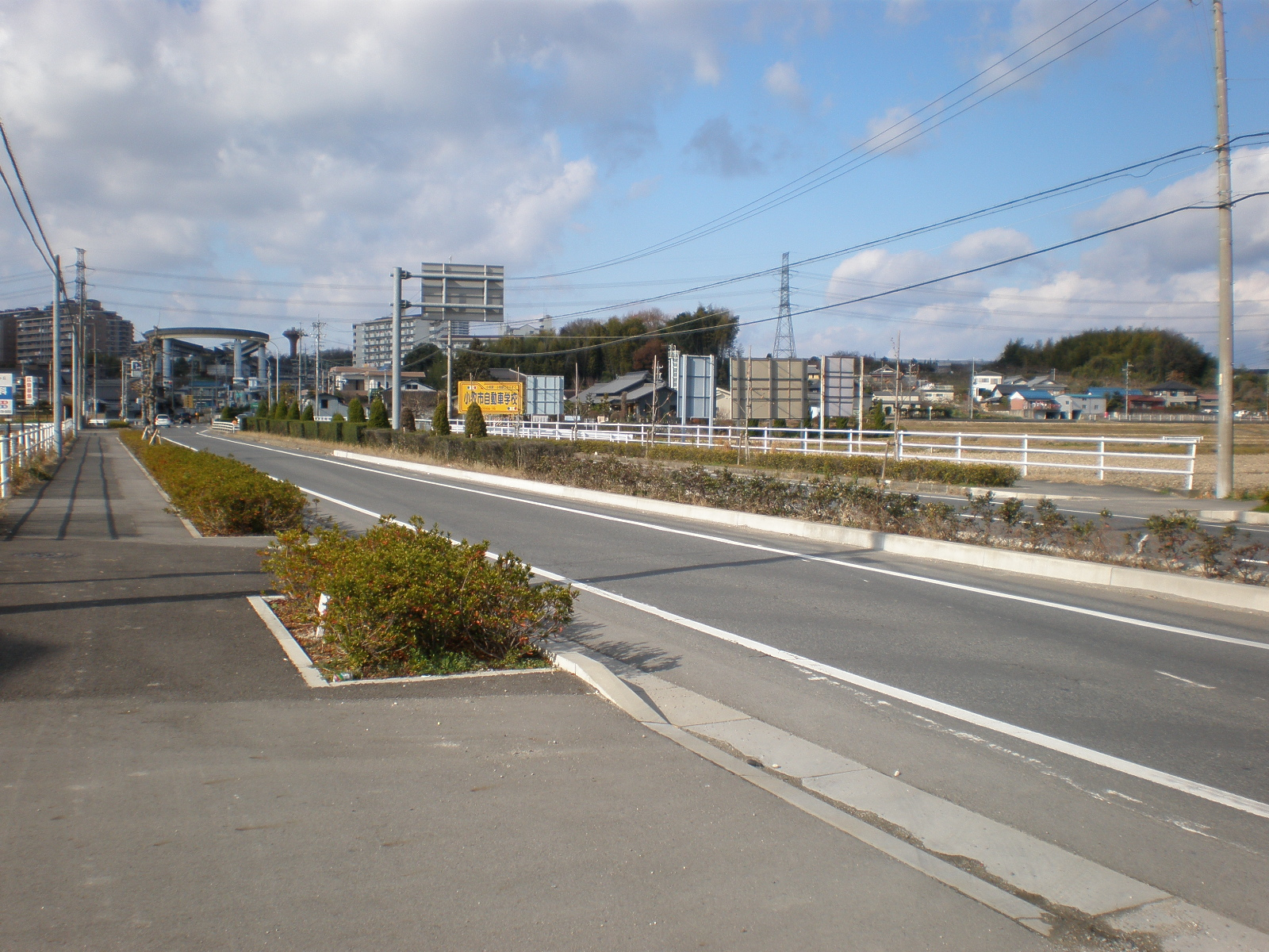 The Aichi Prefectural Road Route 195 in Okusanaka, Komaki City